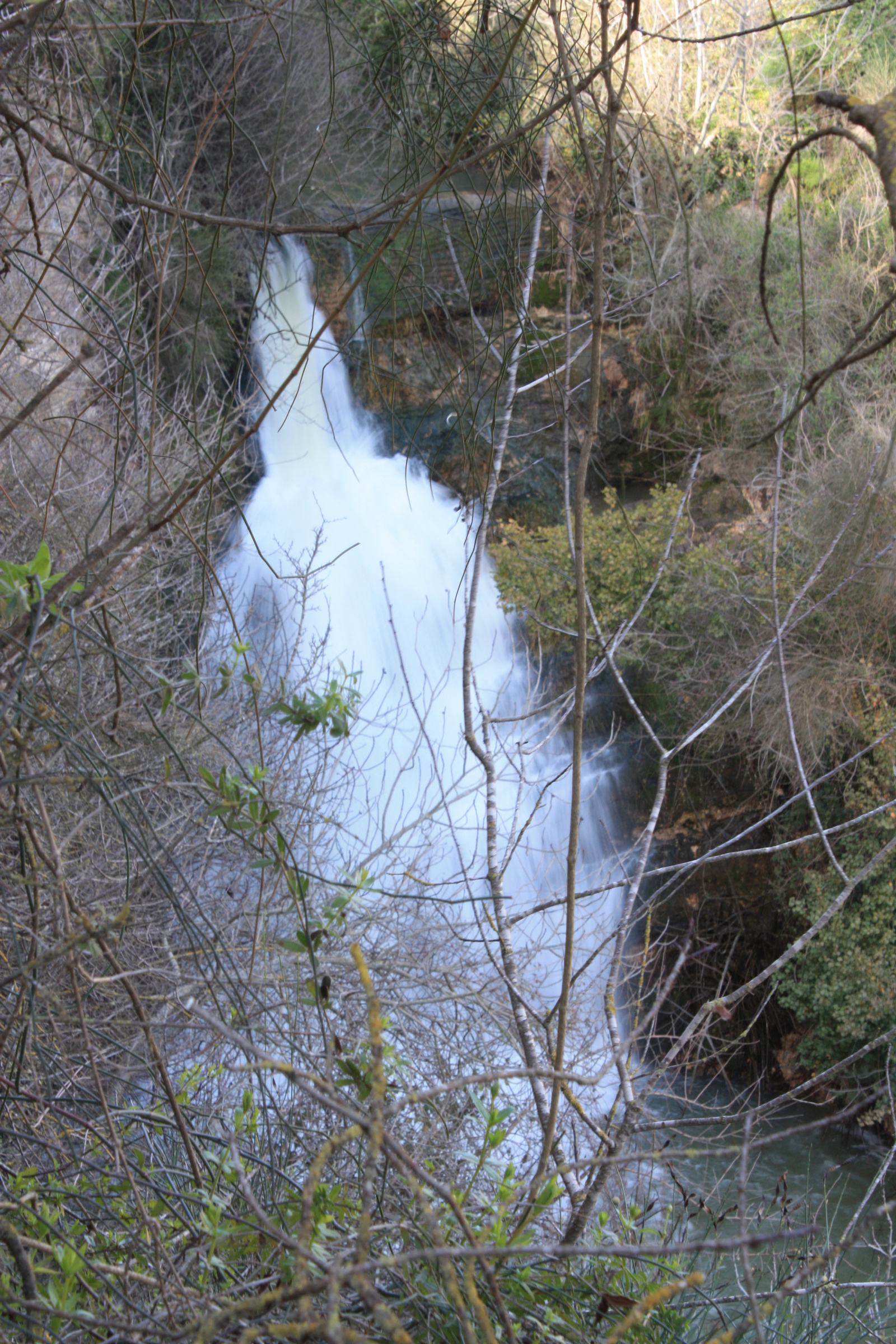 Ayun fall in Ayun river, northern Israel (sorry for the poor quality)